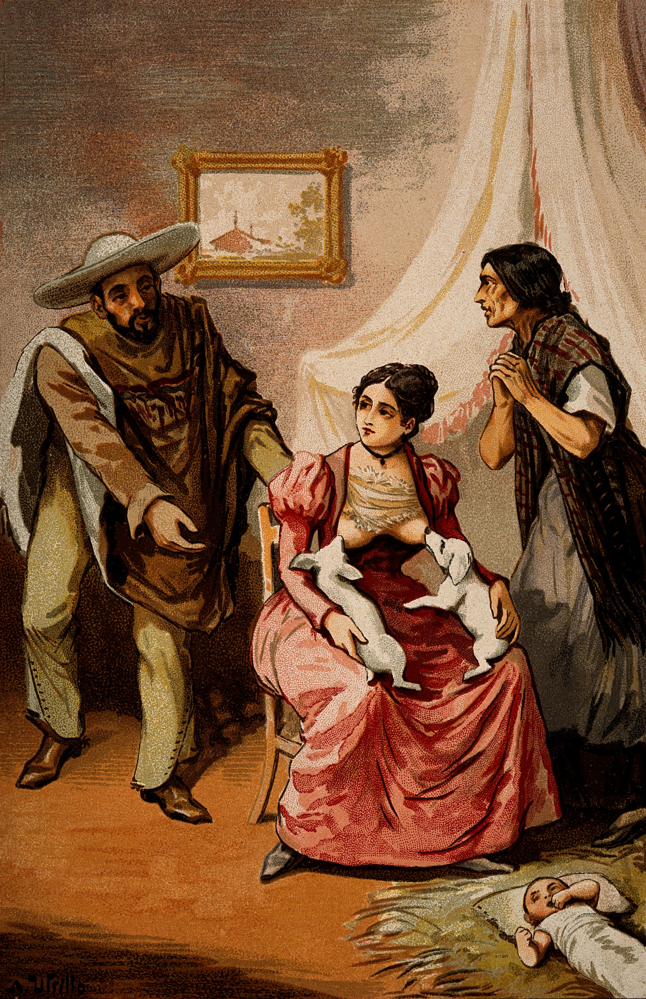 A woman breast feeding two puppies whilst two Mexican peasants implore her to feed their baby, which is lying on the floor on a bed of straw. Chromolithograph after A. Utrillo. Iconographic Collections Keywords: puppies; A Utrillo; a. utrillo; breast-feeding